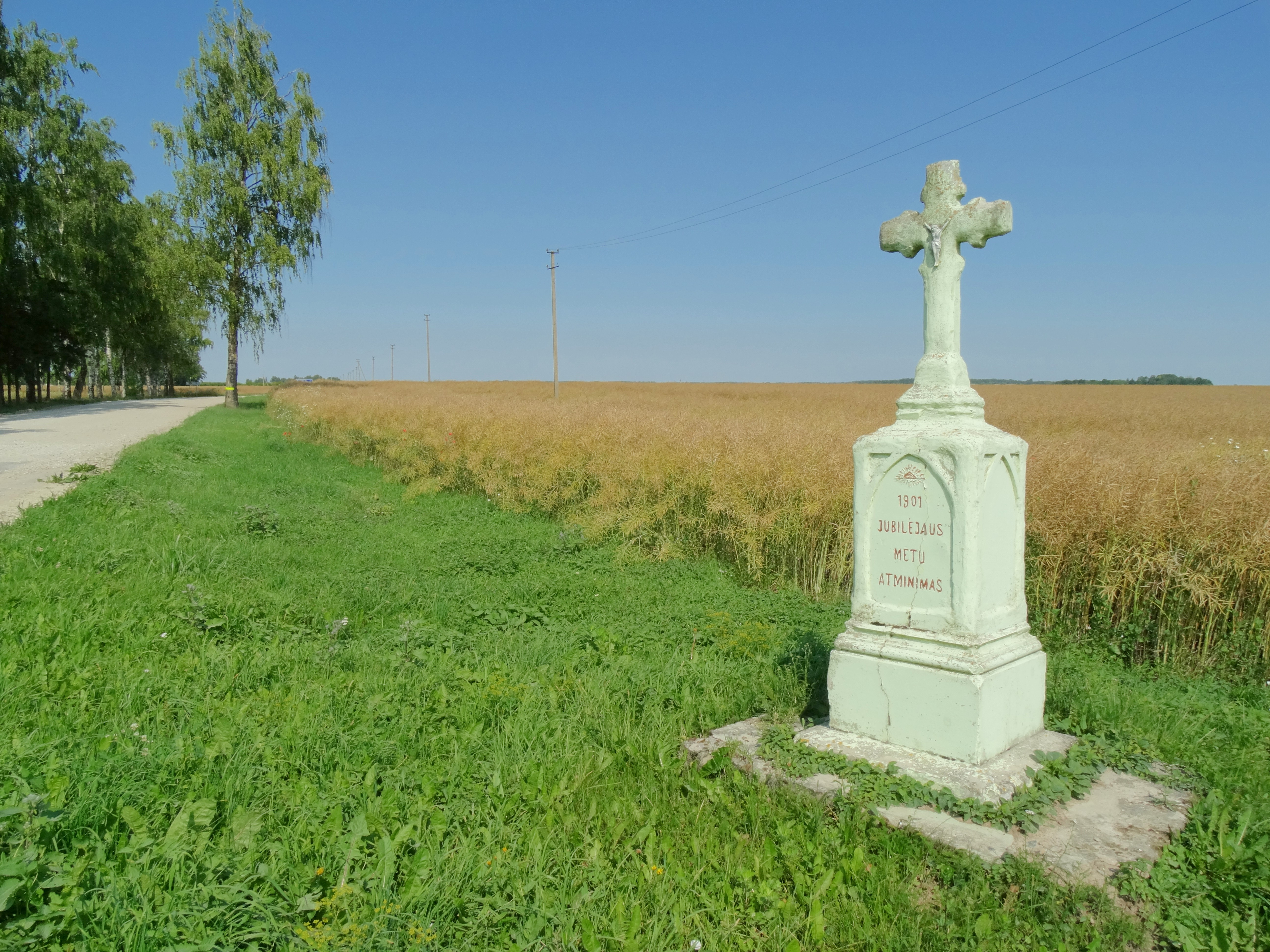 Cross in Pošupės, Joniškis District, Lithuania